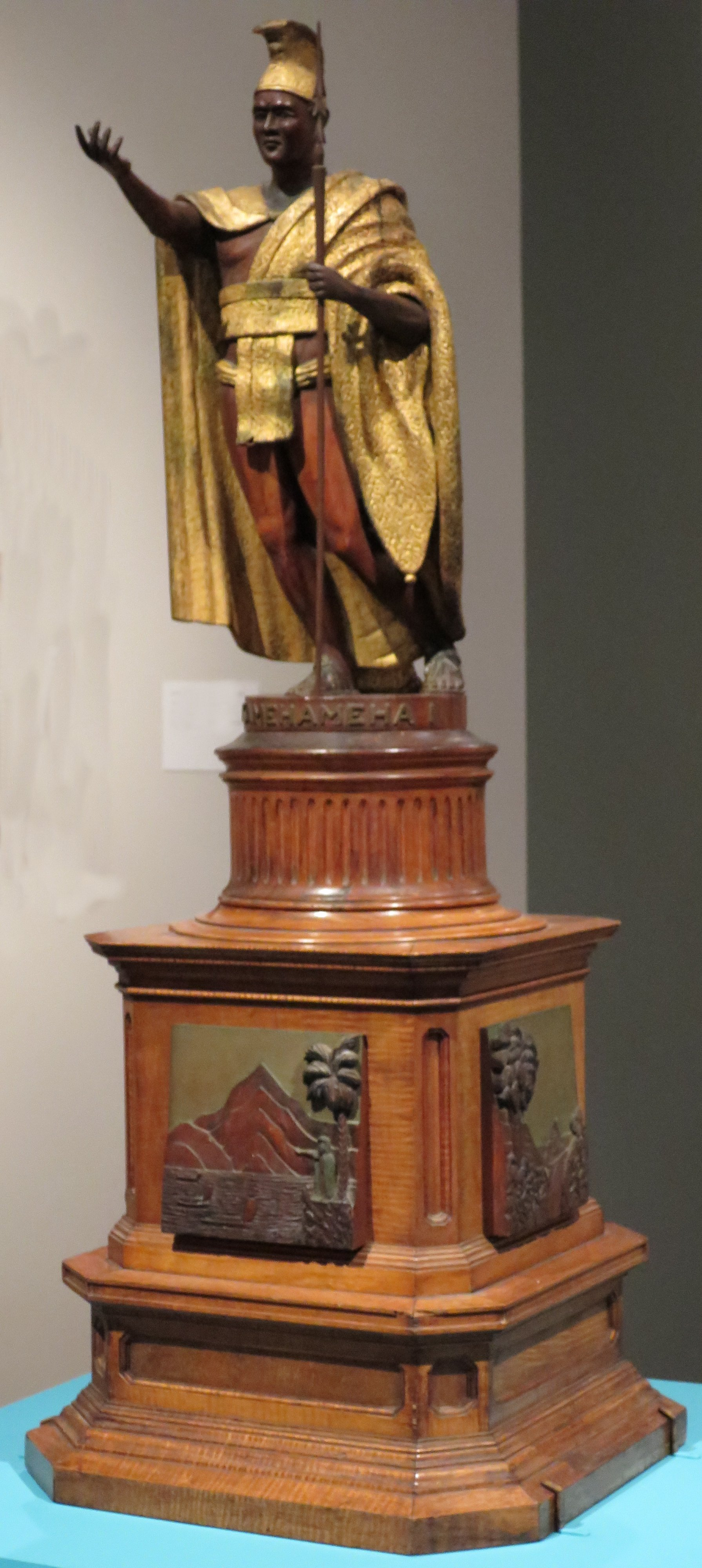 Carved and gilded wooden statue of Hawaiian King Kamehameha I by Franz "Frank" Nikolous Otremba (1851-1910), (after original by Thomas Ridgeway Gould), 1903, Honolulu Museum of Art, accession 13846.1